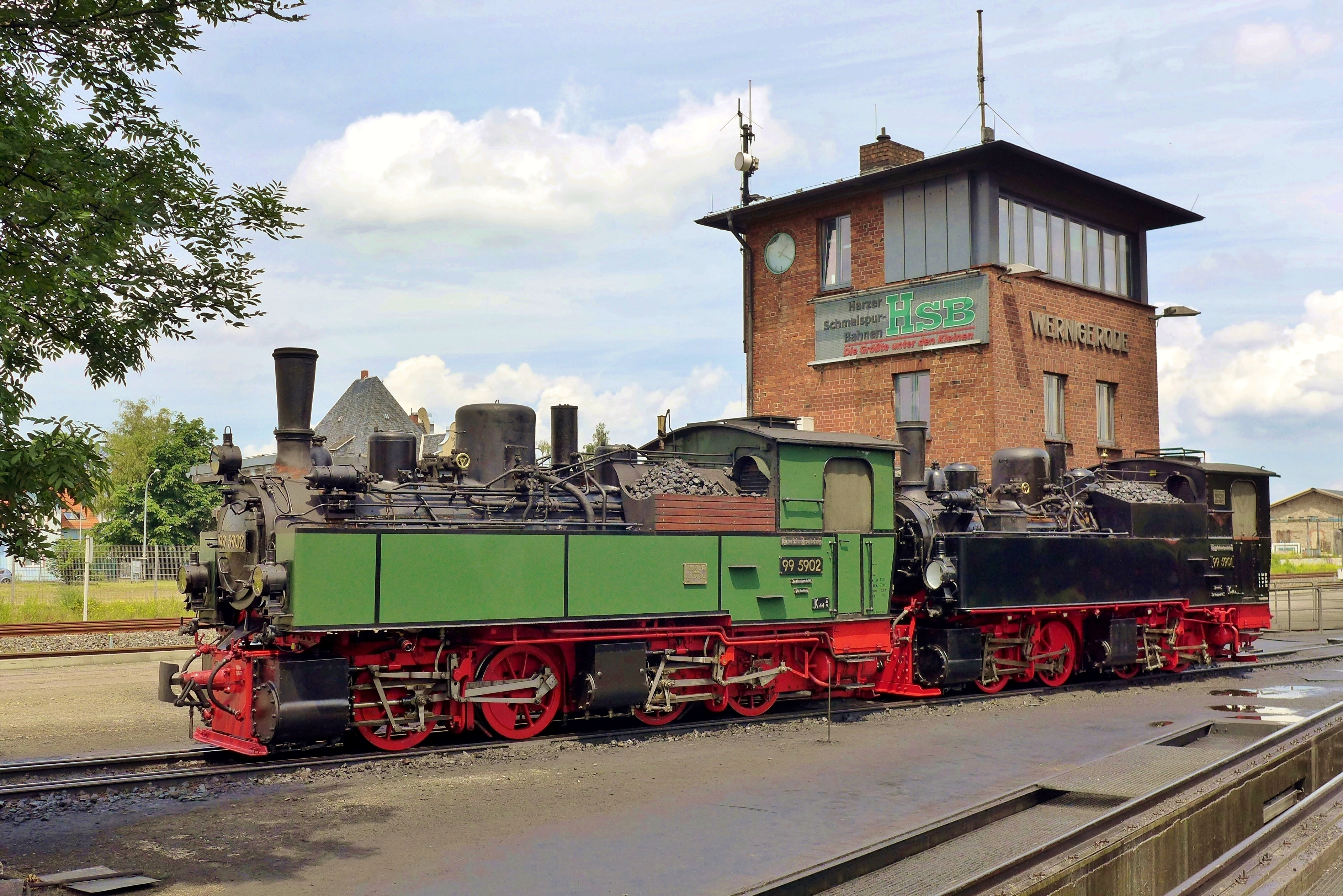 DR Class 99.590 tank locomotives nos. 99 5902 (left) and 99 5901 (right) at Wernigerode locomotive depot, Saxony-Anhalt, Germany.